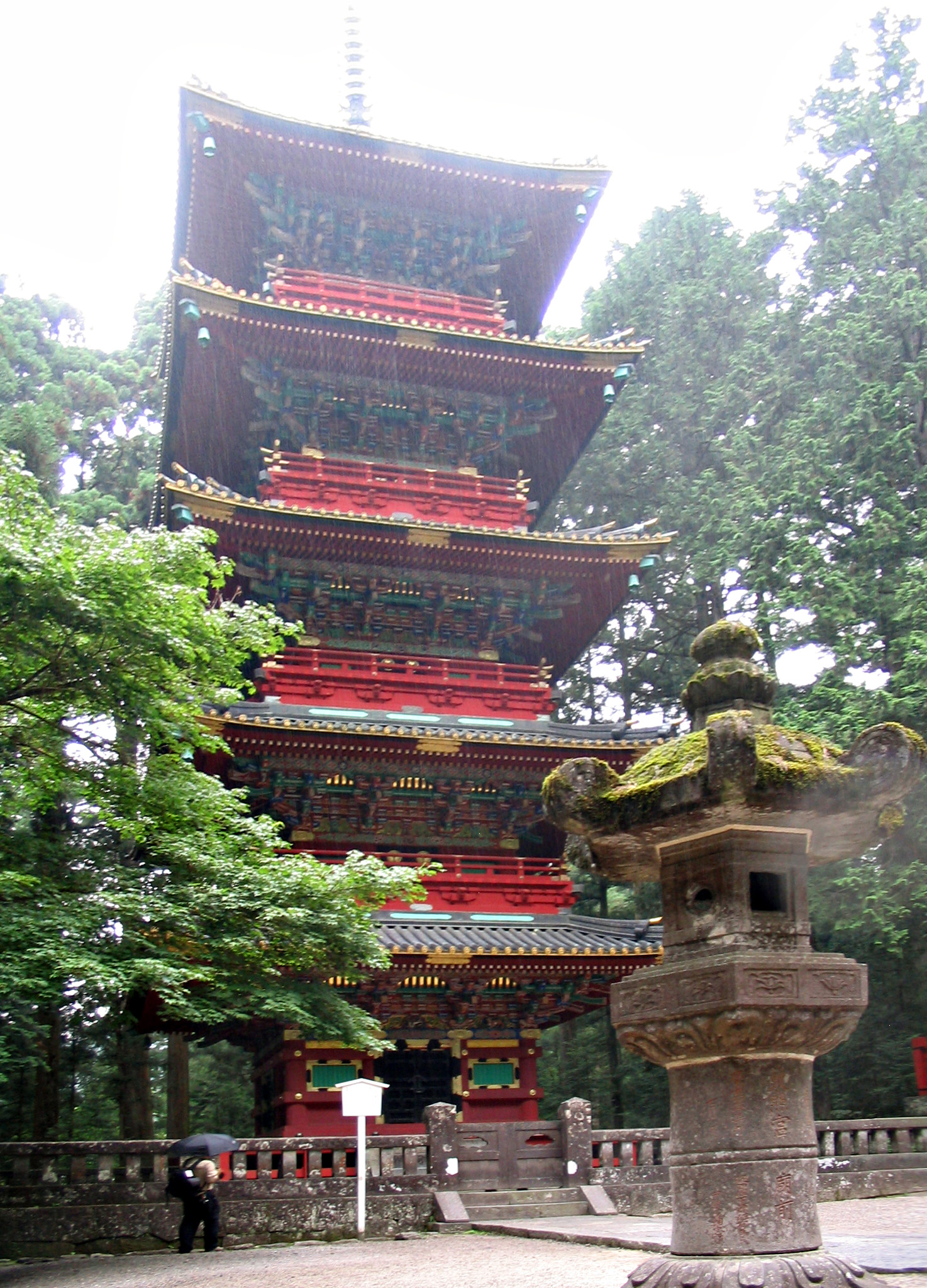 Pagoda at the Toshogu Shrine, Nikko, Japan.